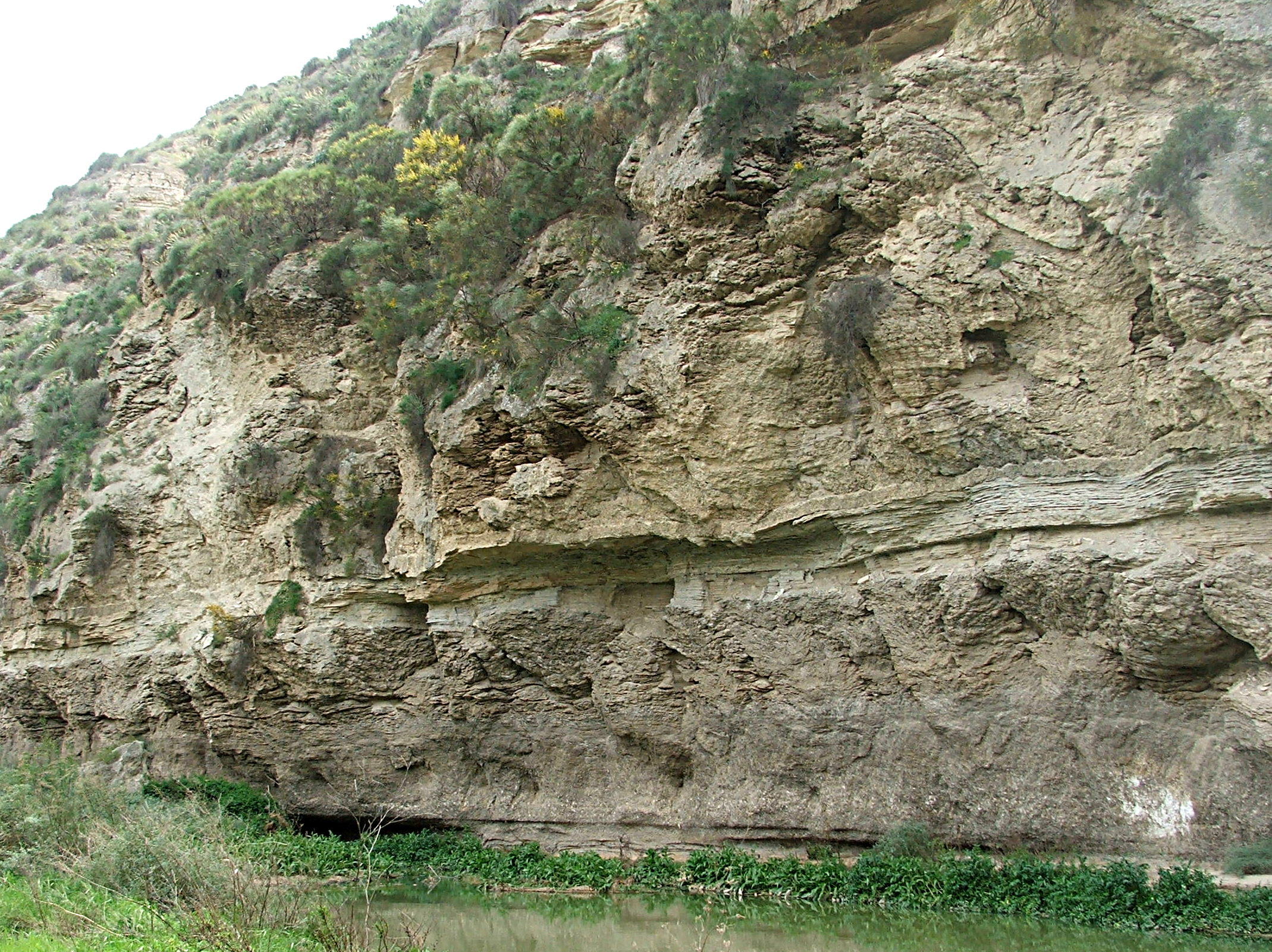 Gypsum of the Yesares member of the Sorbas basin, formed in association with the Messinian salinity crisis. The gypsum can be clearly seen to have formed at the sediment surface, forming cones separated by laminated sediments. The cliff's height is about 100m, requiring the evaporation of 100km of seawater (through several desiccation-refilling cycles) to be produced.